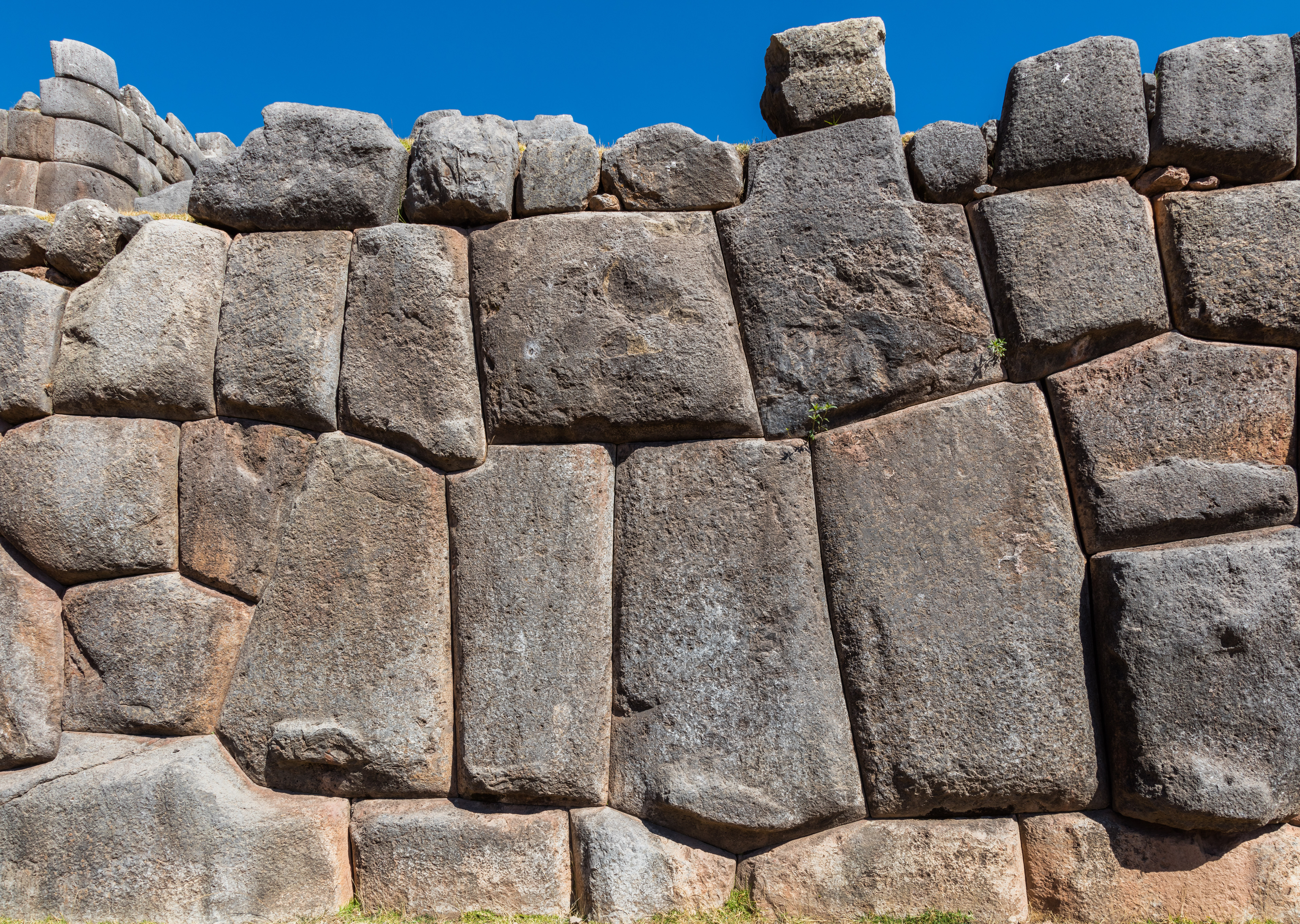 Sacsayhuamán, Cusco, Peru